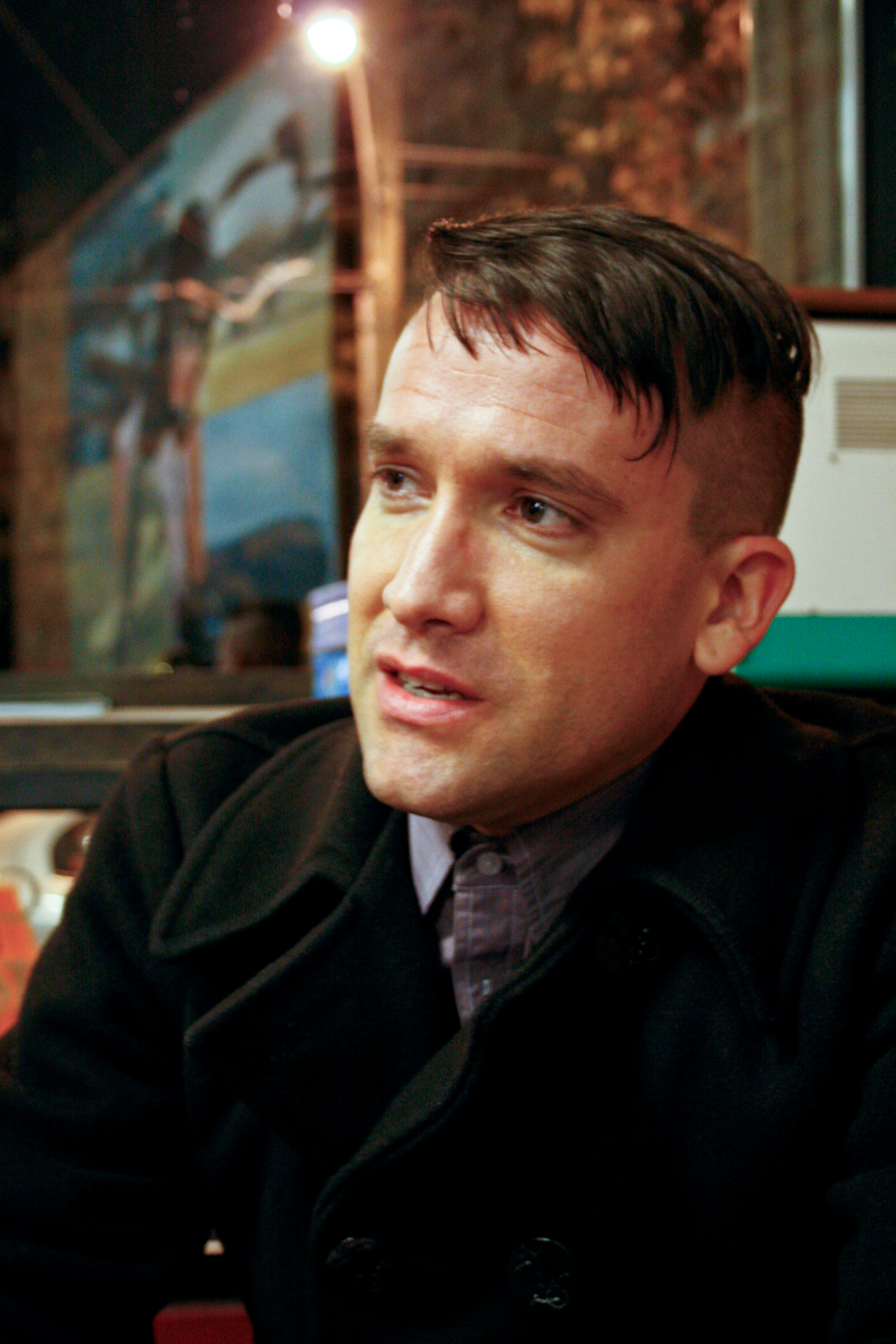 Jamie Stewart of Former Ghosts. Interview here